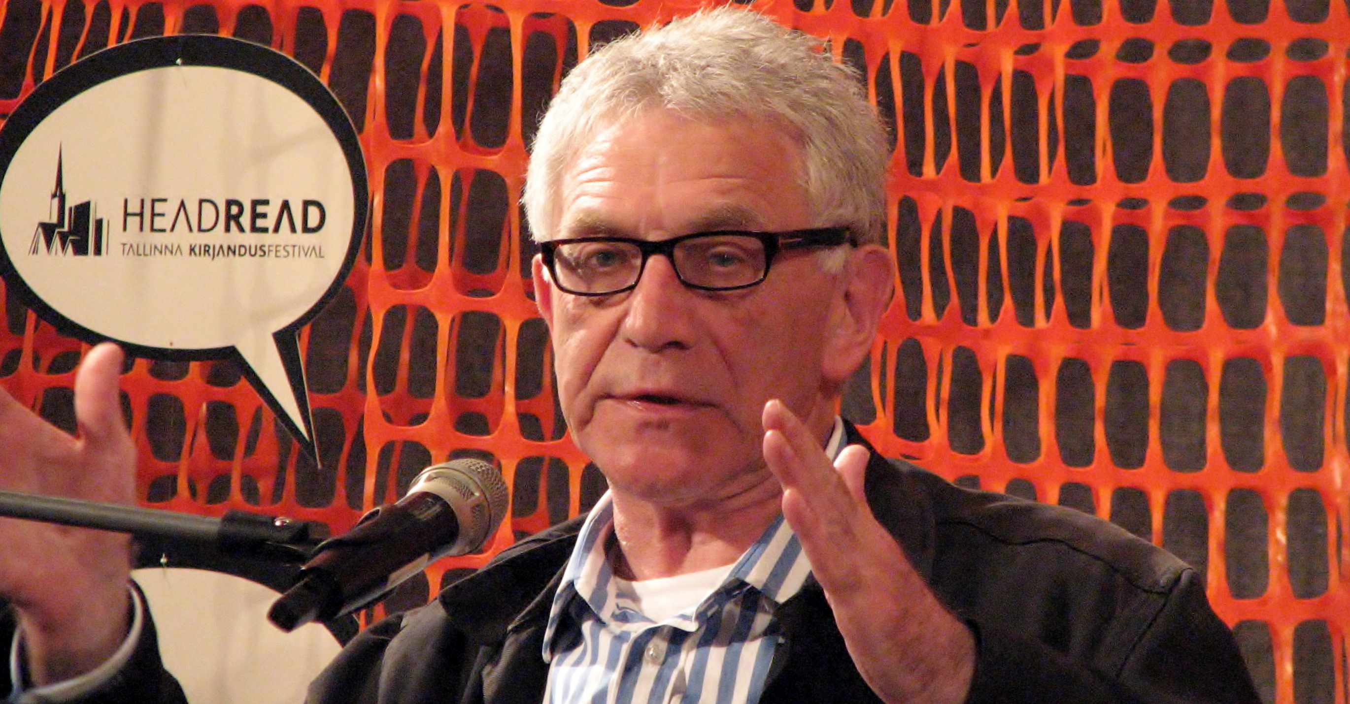 Zinovy Zinik performing in festival HeadRead